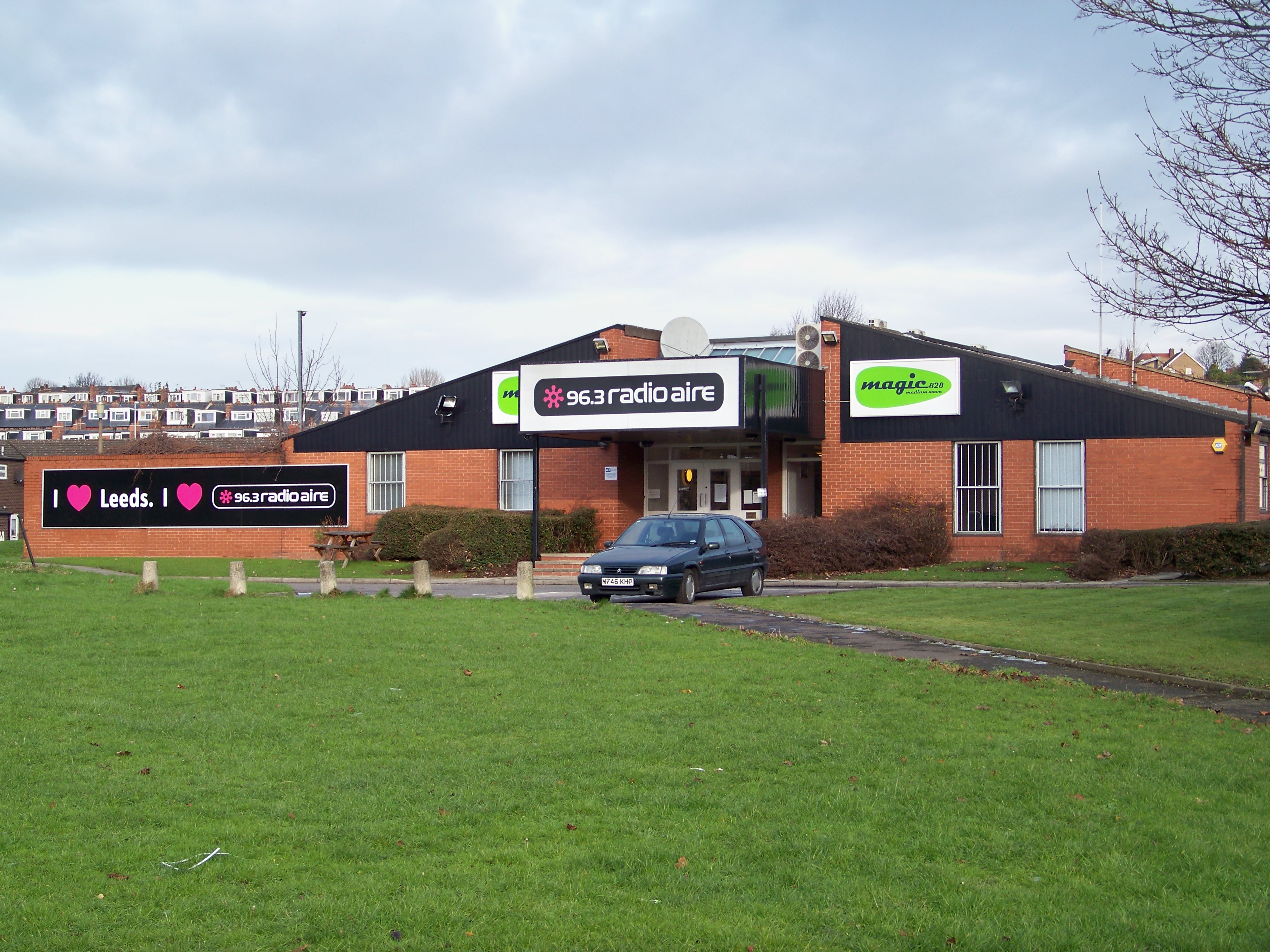 Radio Aire and Magic 828 studios in Leeds. These are situated on the A65 Kirkstall Road in Burley, Leeds (adjacent to the Leeds Studios). Taken around midday on Thursday the 31st of December 2009.